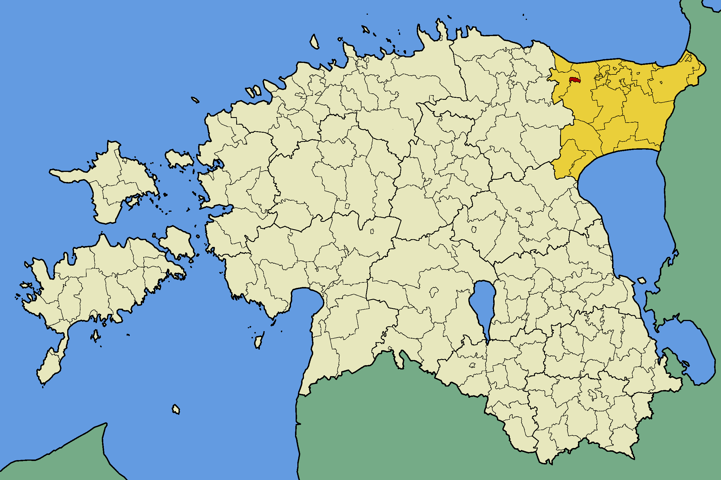 Map of Estonia with borders of municipalities (parishes). Ida-Viru county and Kiviõli town municipality emphasized.